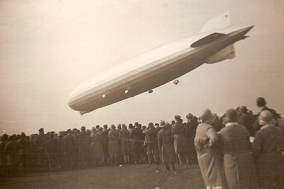 People watching the landing of Zeppelin LZ 127